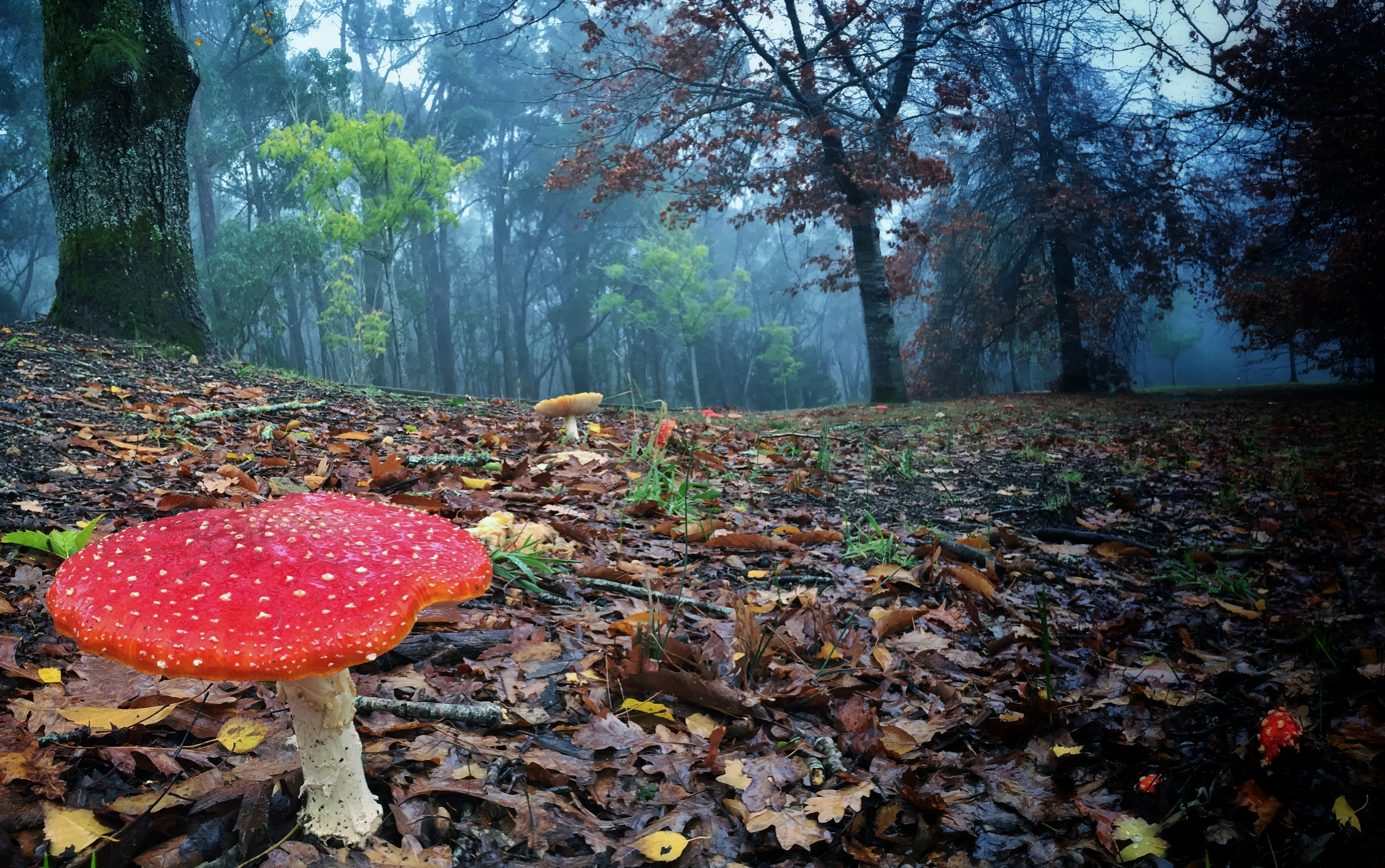 This Amanita muscaria, commonly known as the fly agaric or fly amanita, was taken in the Mount Lofty Botanic Gardens in the Adelaide Hills, South Australia. Located just 25 minutes from the CBD, the Mount Lofty Botanic Gardens is beautiful haven for these kinds of fungi in late Autumn. The protected gardens are home to Kangaroos, Echidnas, many species of birds, a wide variety of flora and a beautiful lake that is perfect for an afternoon picnic.